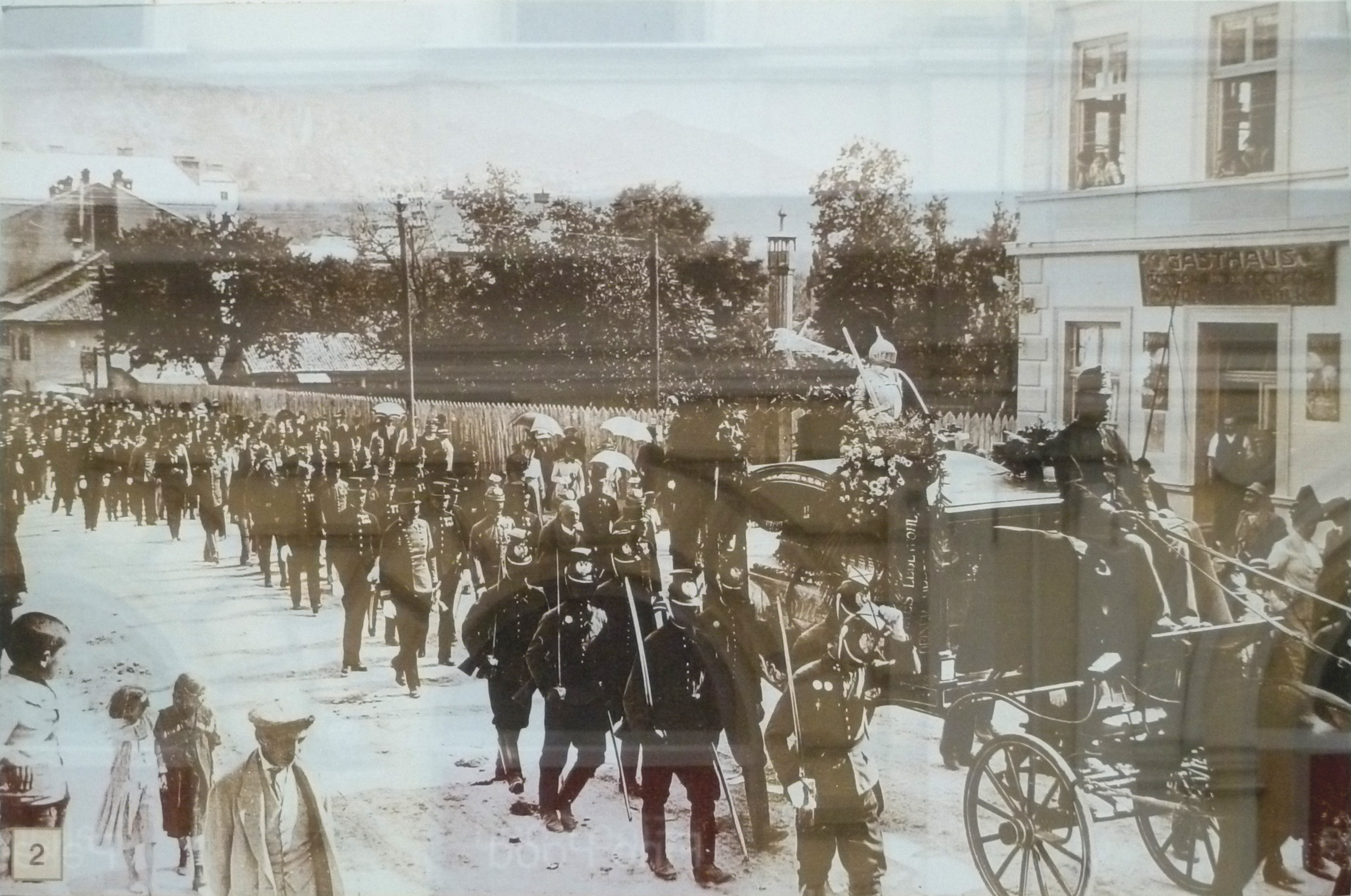 Sarajevo: Assassination of Archduke Franz Ferdinand of Austria and Sophie, Duchess of Hohenberg: the funeral cortege through Sarajevo